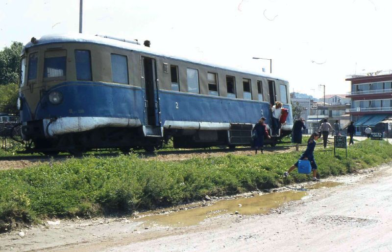 Uerdingen diesel railbus in Killini, Greece, 1981 / This was a passenger service on its way to Killini Port. The port operates ferry services to Zakynthos and Kefalonia.